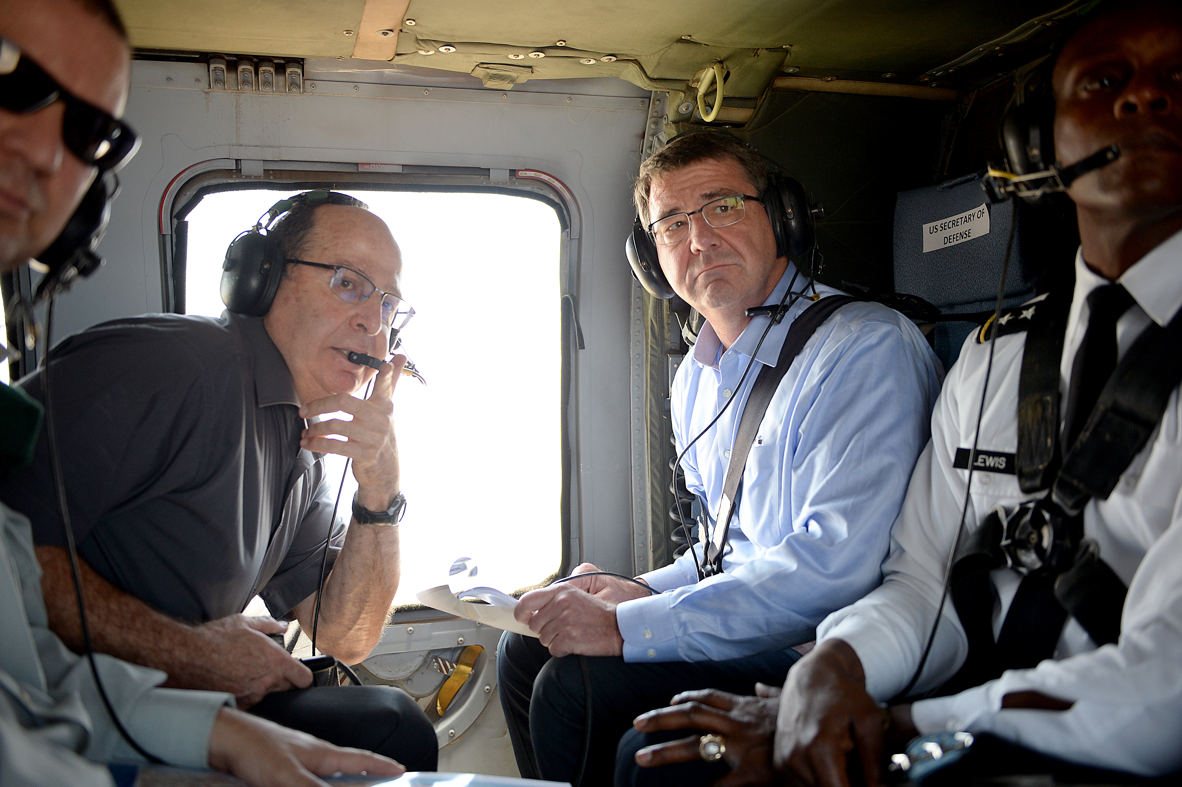 Ashton Carter visits Israel, July 2015